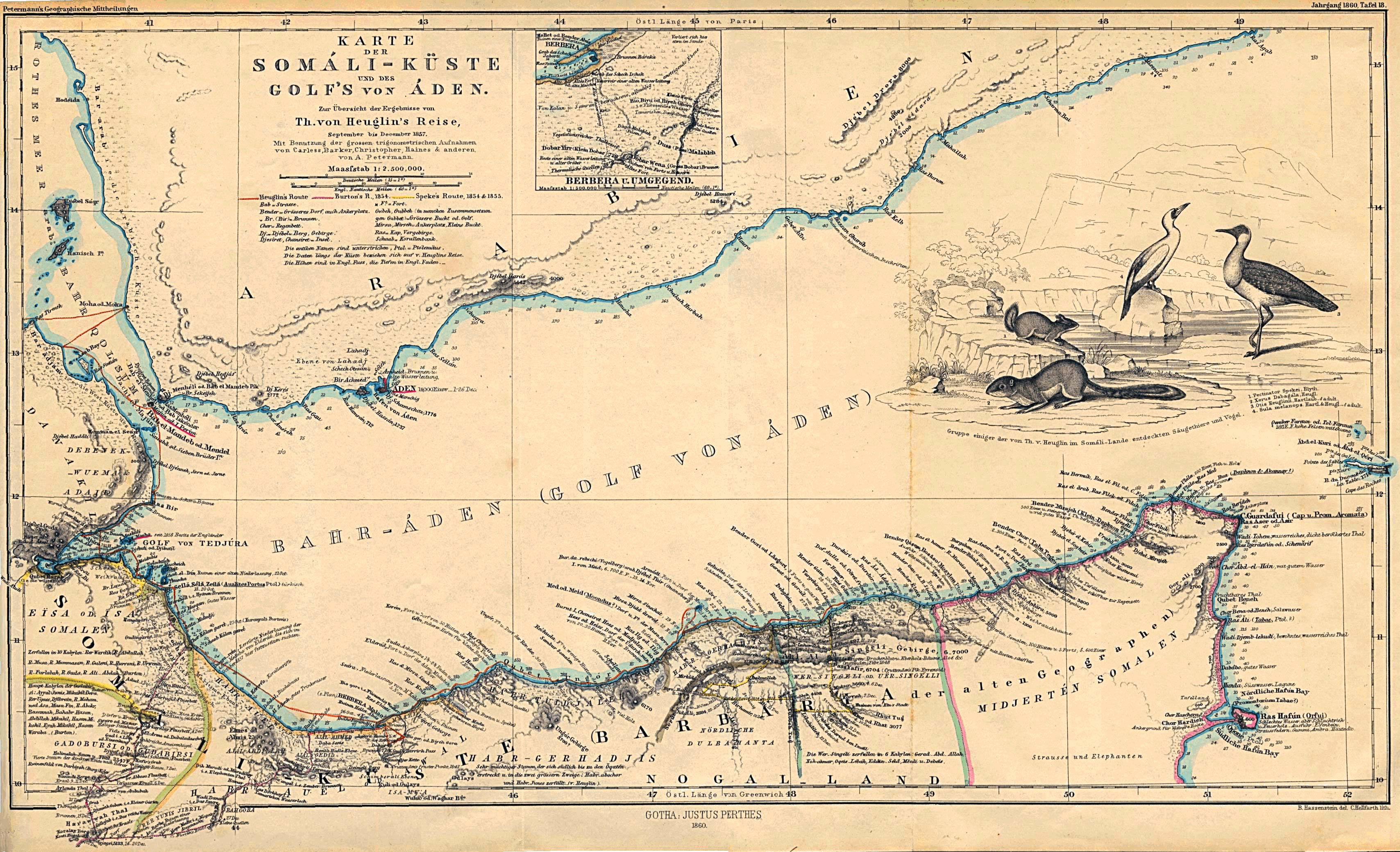 Map from around 1860 showing the Gulf of Aden (in German language)